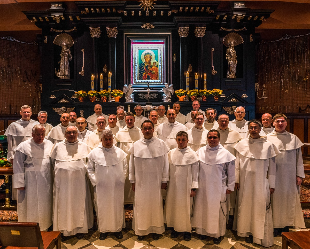 Shrine of Our Lady of Czestochowa (Doylestown, PA) - Pauline Fathers